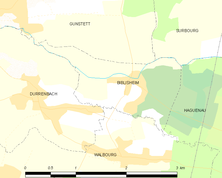 Map of French municipality